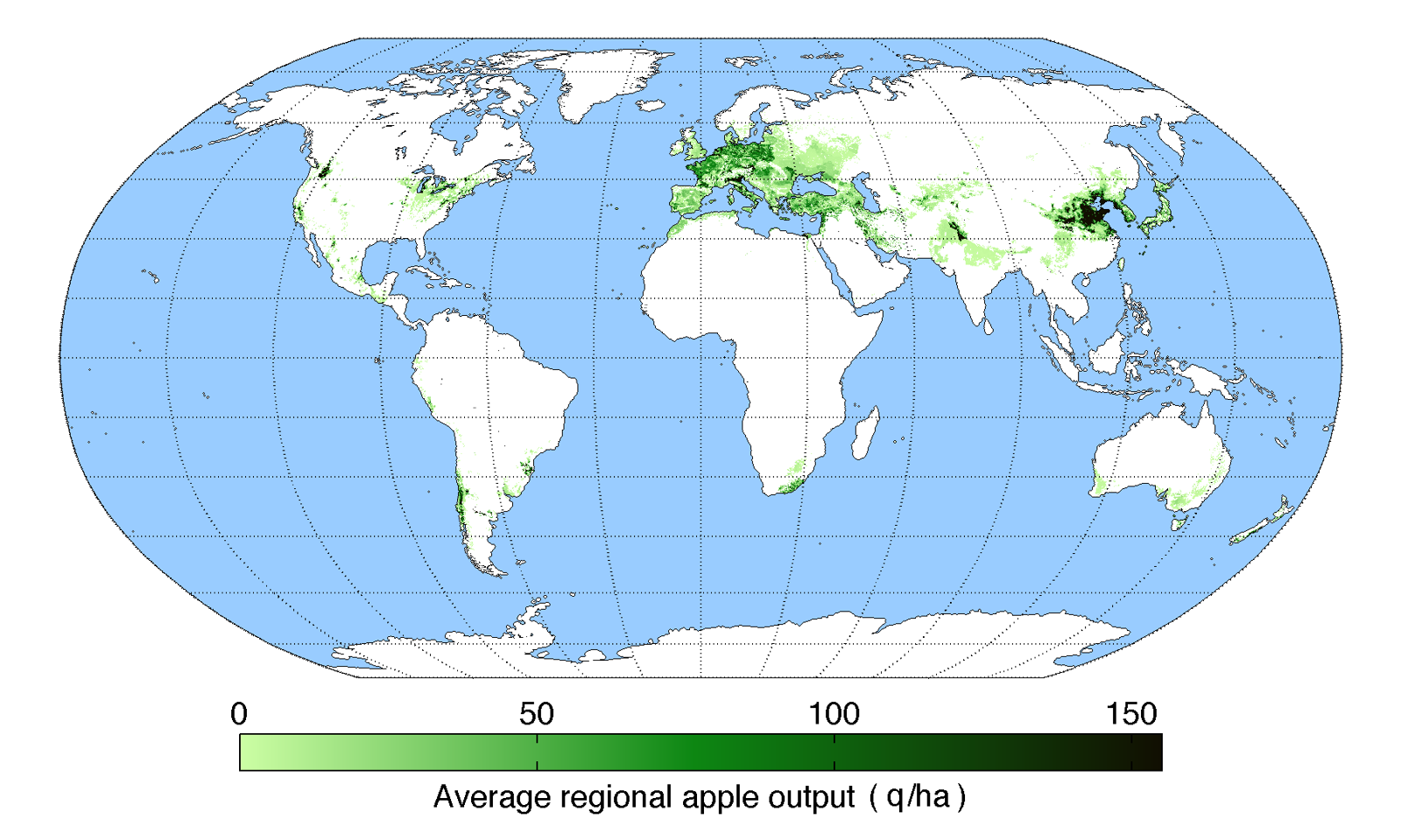 Map of apple production (average percentage of land used for its production times average yield in each grid cell) across the world compiled by the University of Minnesota Institute on the Environment with data from: Monfreda, C., N. Ramankutty, and J.A. Foley. 2008. Farming the planet: 2. Geographic distribution of crop areas, yields, physiological types, and net primary production in the year 2000. Global Biogeochemical Cycles 22: GB1022